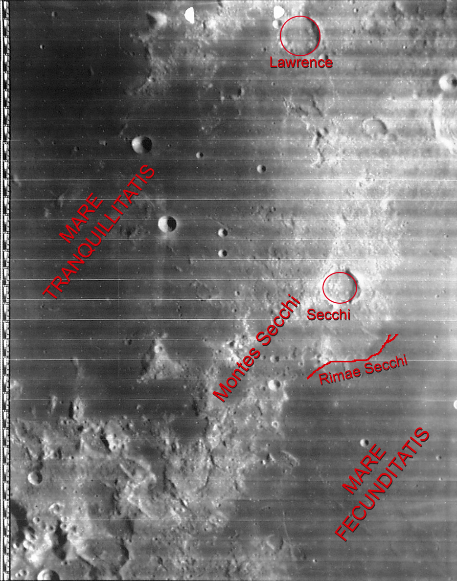 Montes Secchi